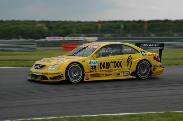 Janis in DTM season 2004